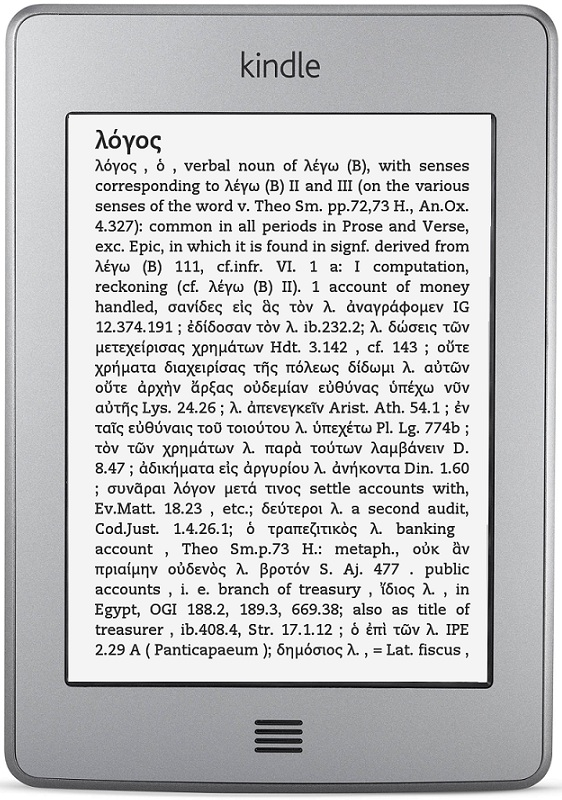 Kindle Version of the Liddell Scott Jones Lexicon